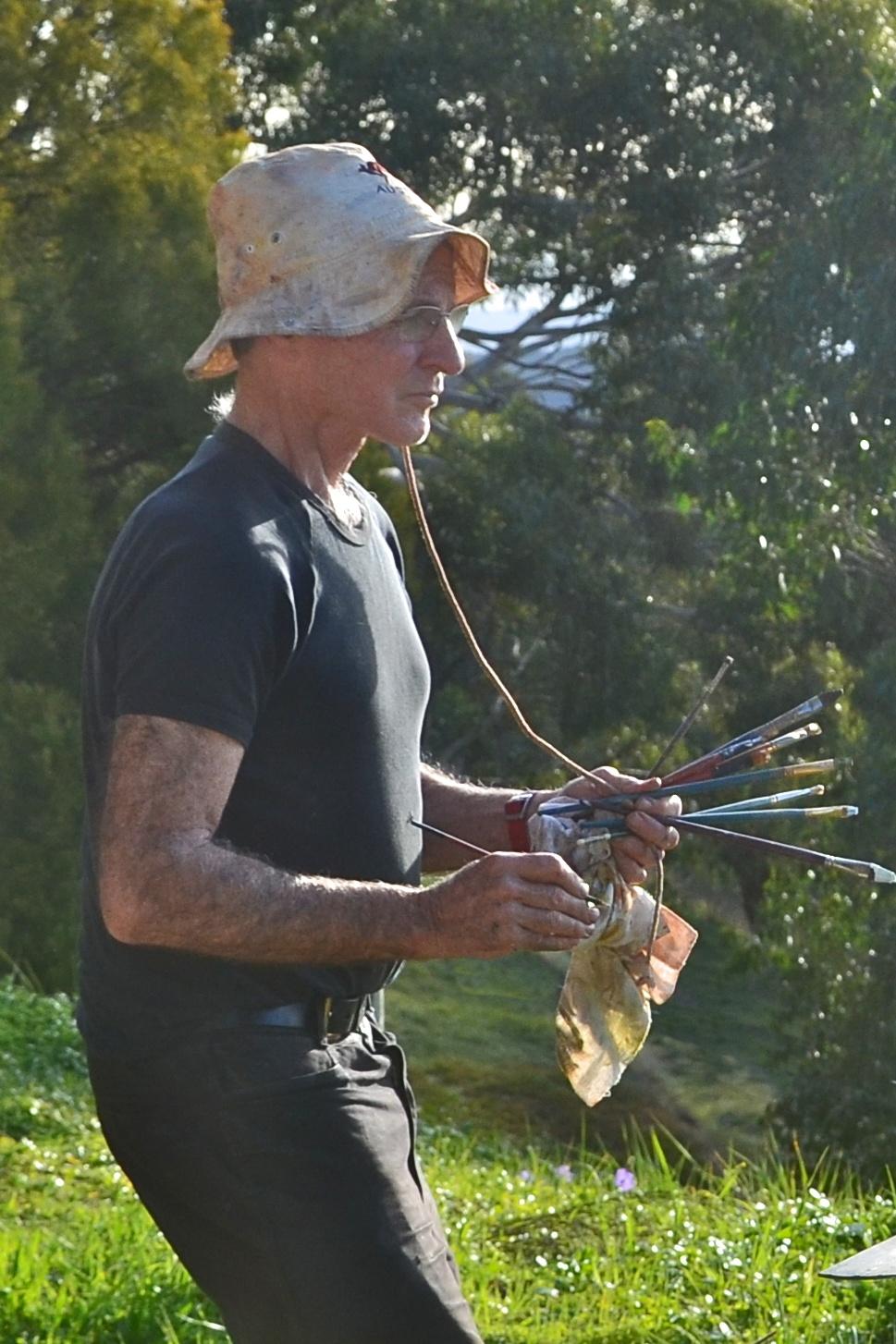 South Australian artist, Robert Hannaford, painting a landscape near Adelaide